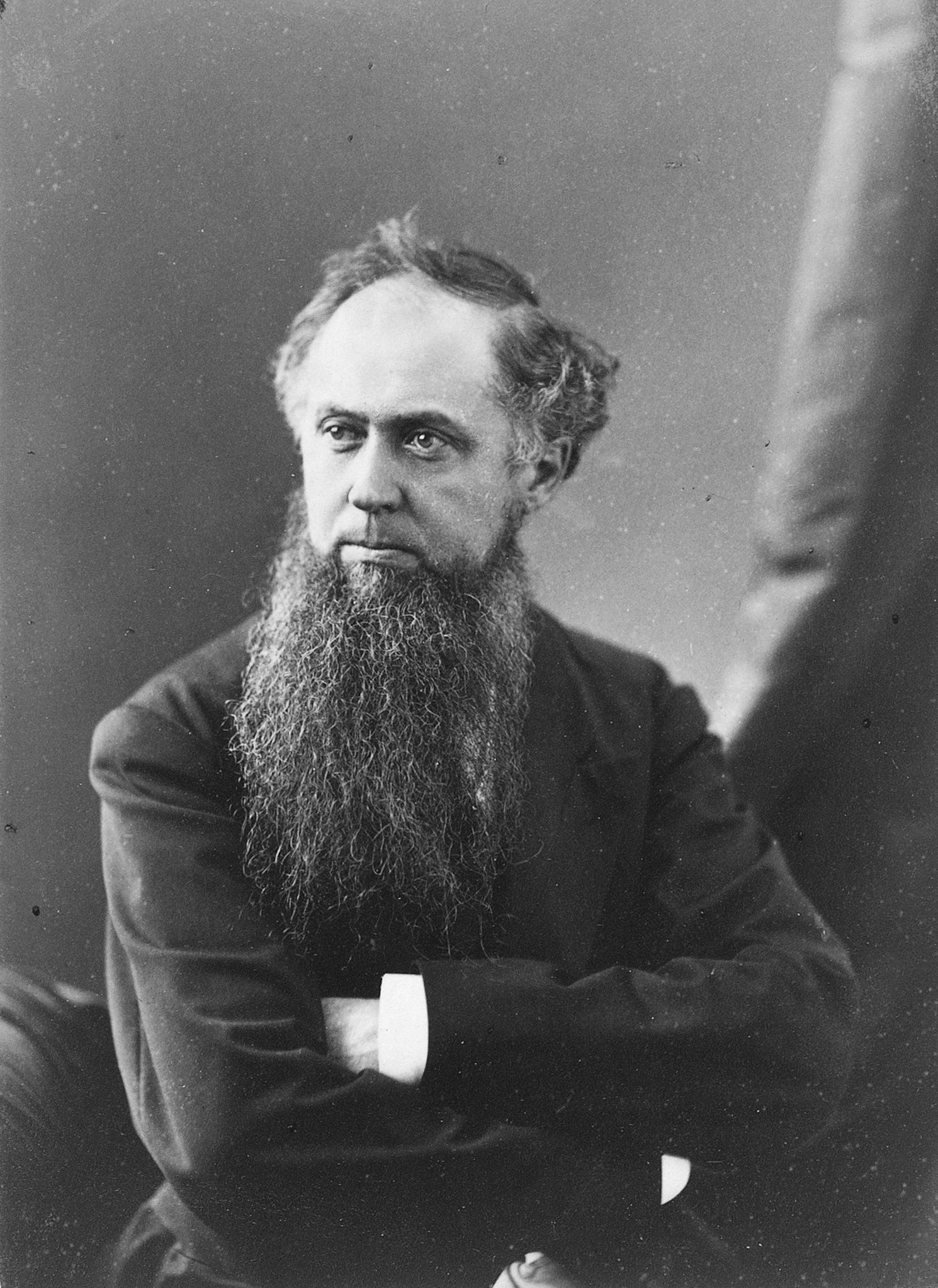 Portrait of Abraham Bogardus (1822-1908), New York photographer and Daguerreotypist